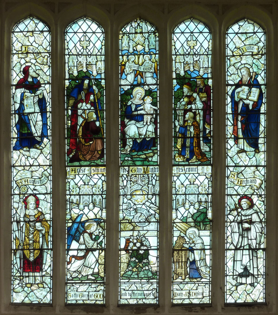 Priory church of St Mary, Canons Ashby, Northamptonshire: stained glass in the east window